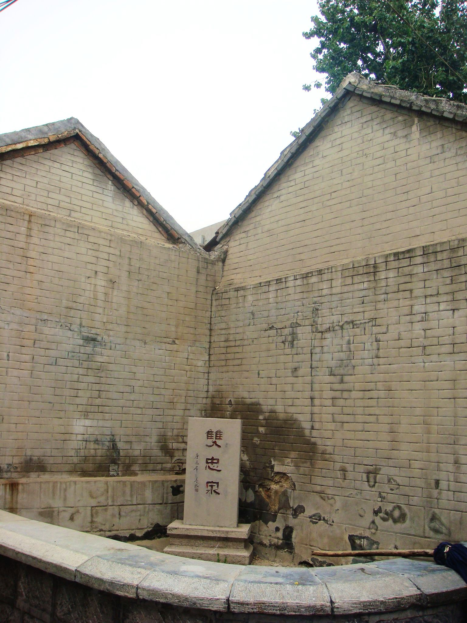 Shuangzhong Spring in Jinan.